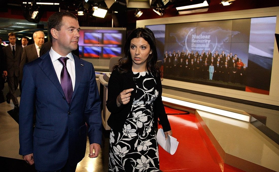 Visiting the Russia Today television channel’s offices. With Editor-in-Chief of Russia Today Margarita Simonyan.